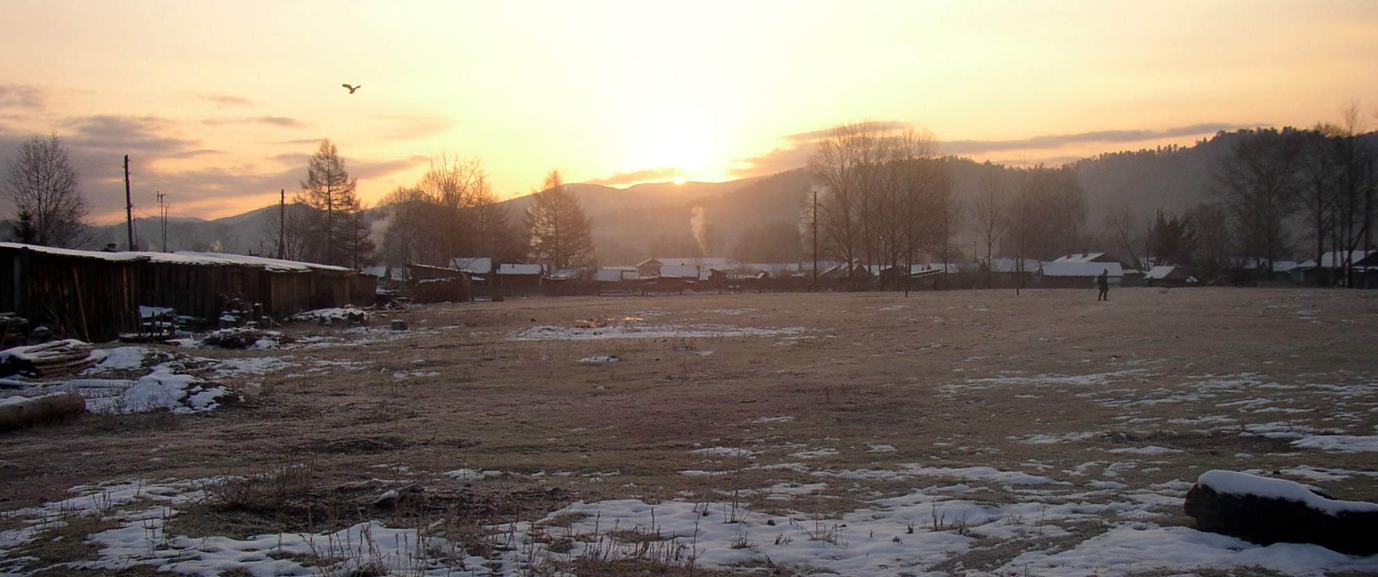 Бывший стадион